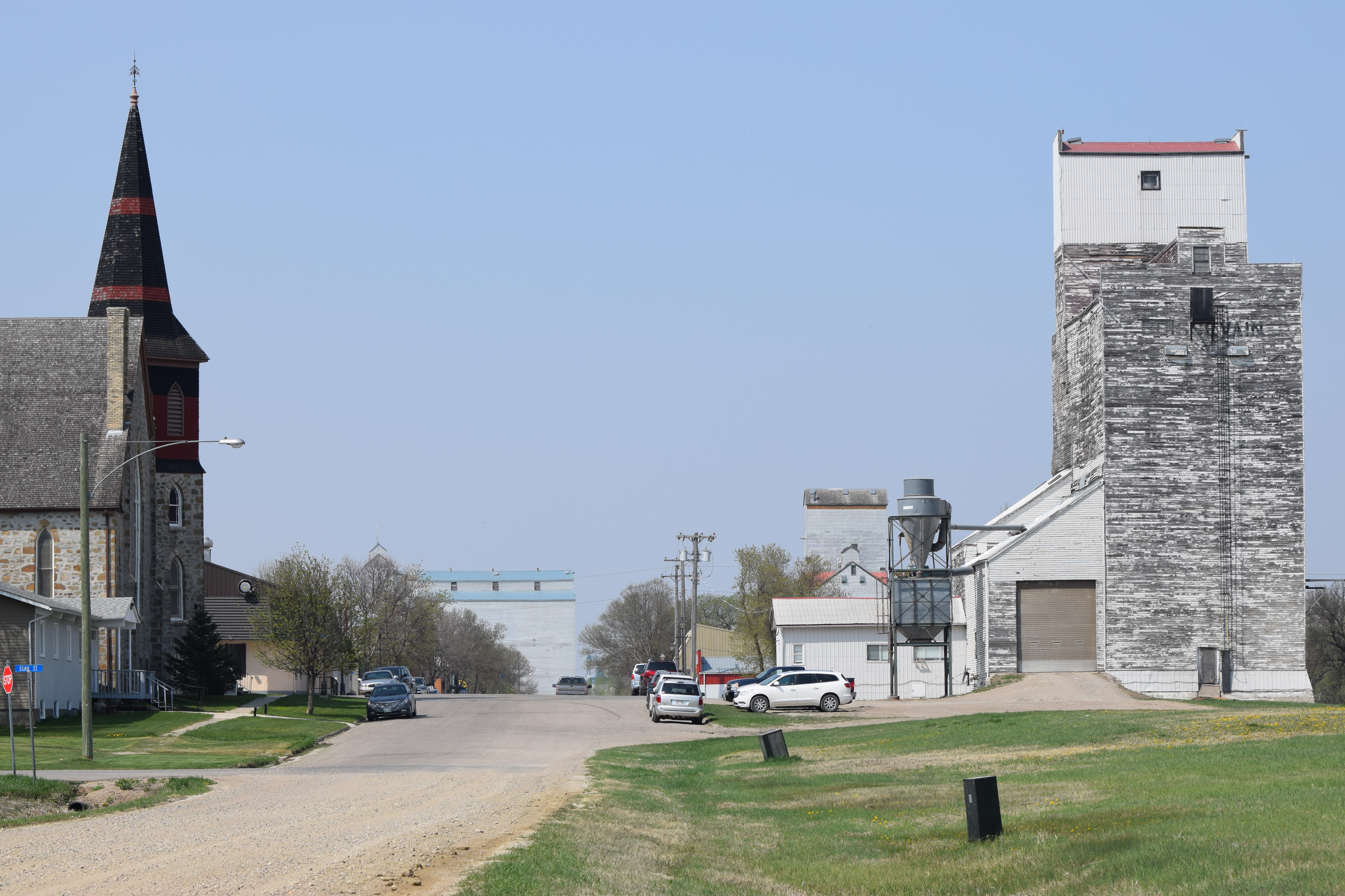 A view of Boissevain, Manitoba looking west. St. Paul's United Church is visible on the left, constructed in 1893. A few of the town's grain elevators are visible on the right.